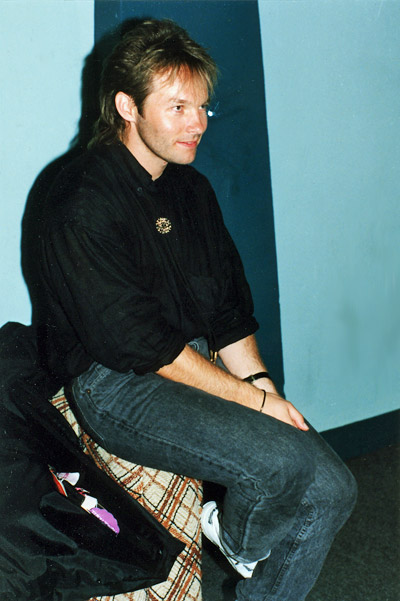 Nick Van Eede of Cutting Crew